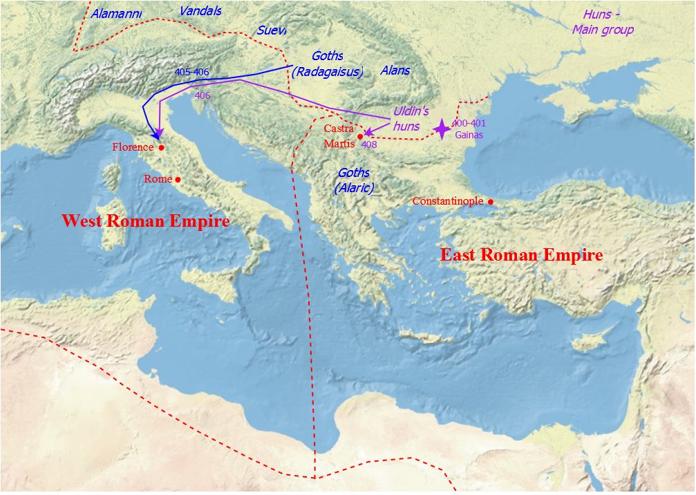 Map showing known references to Uldin the Hun (400-408). English version.